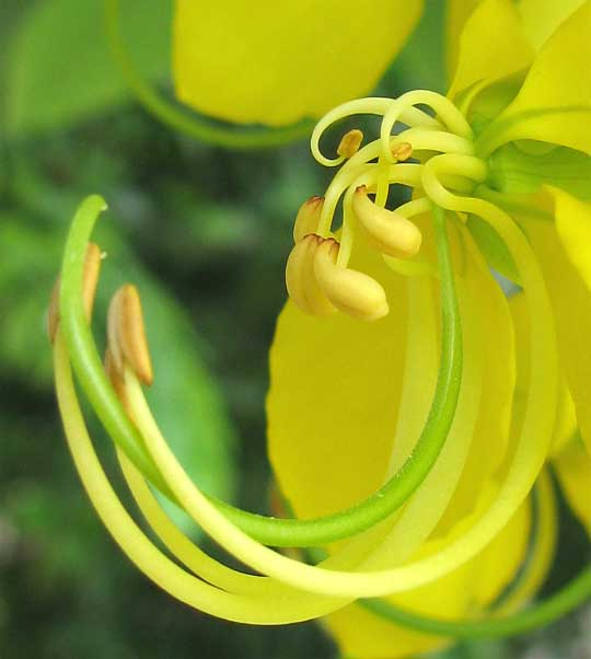 A Cassia fistula flower. It is somewhat unusual in that its stamens are quite variable.